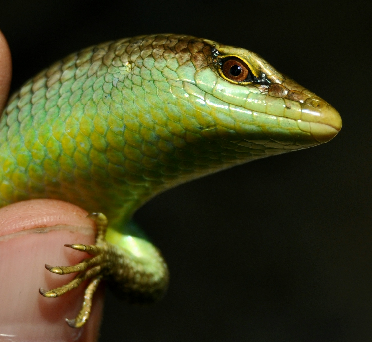 Dasia olivacea, Olive Tree Skink; head close up. From jungle rubber plantation (agroforest) in Merangin, Jambi, Sumatra, Indonesia